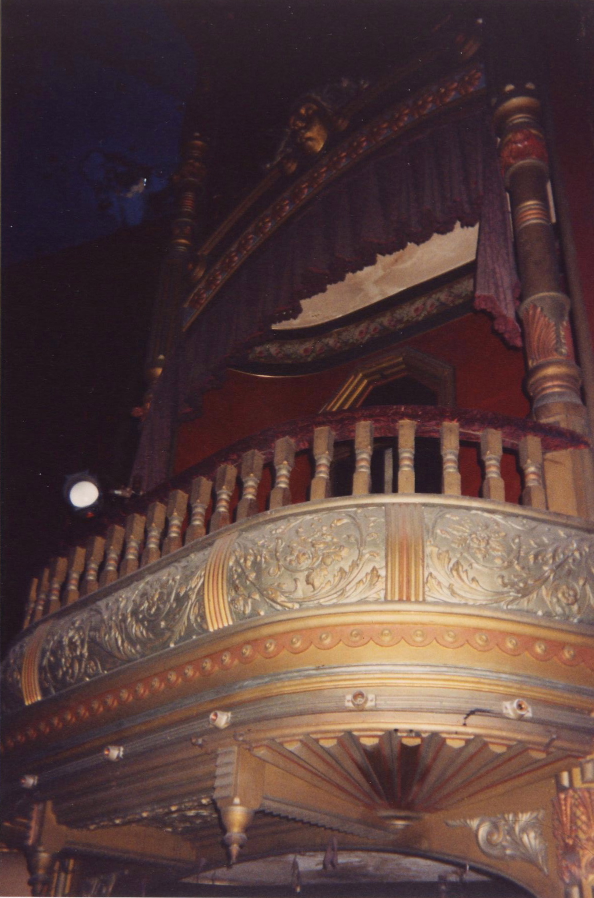 Meridian, Mississippi. Balcony in old Opera House.